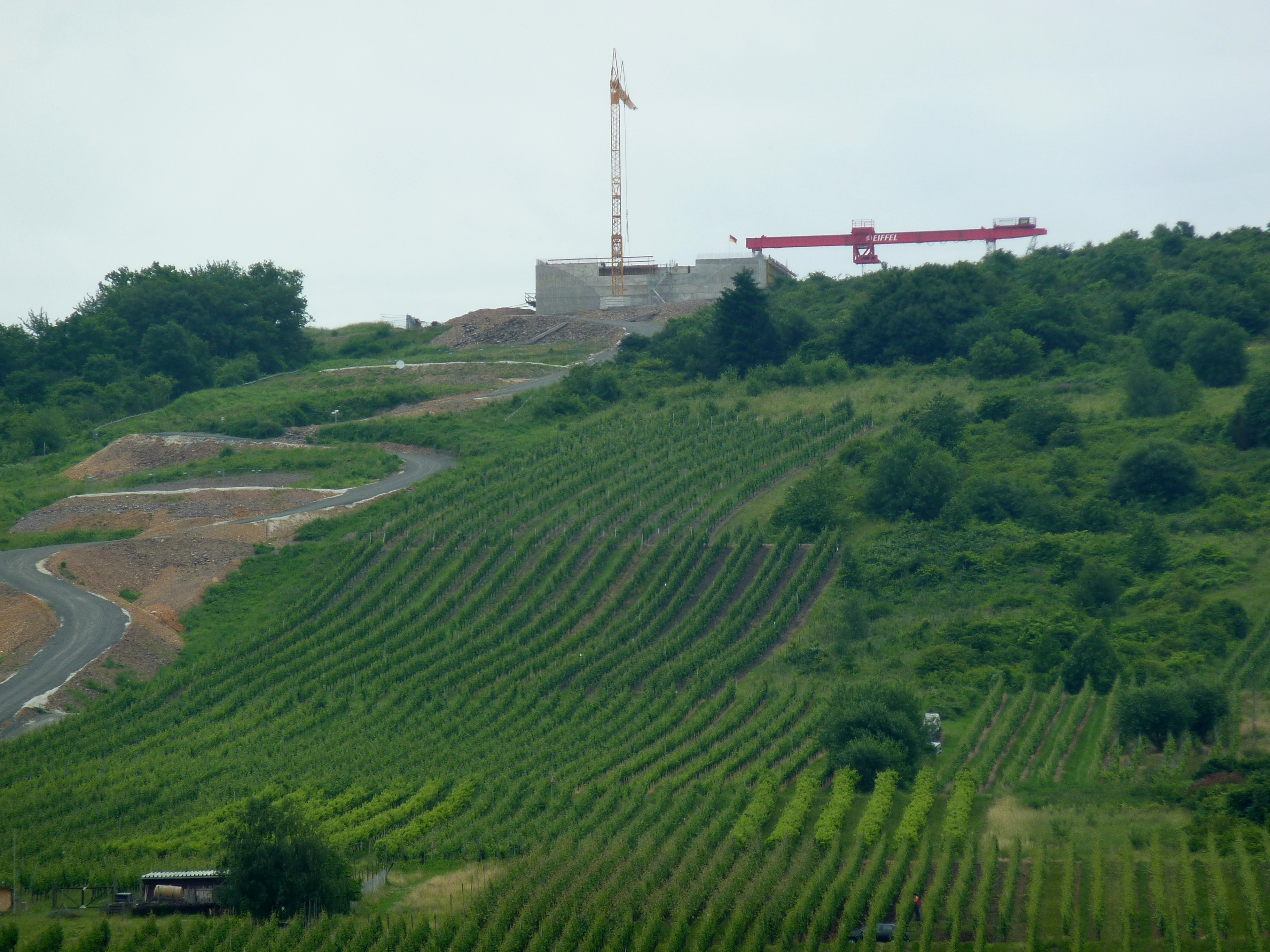 Hochmosel Bridge under construction near Zeltingen-Rachtig